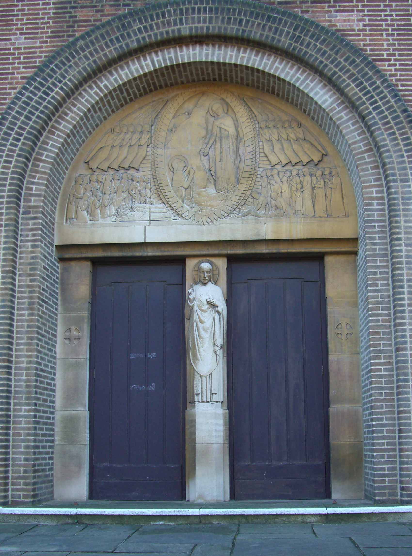 Main door to Sacred Heart Church, Forbes Road, Hillsborough, Sheffield